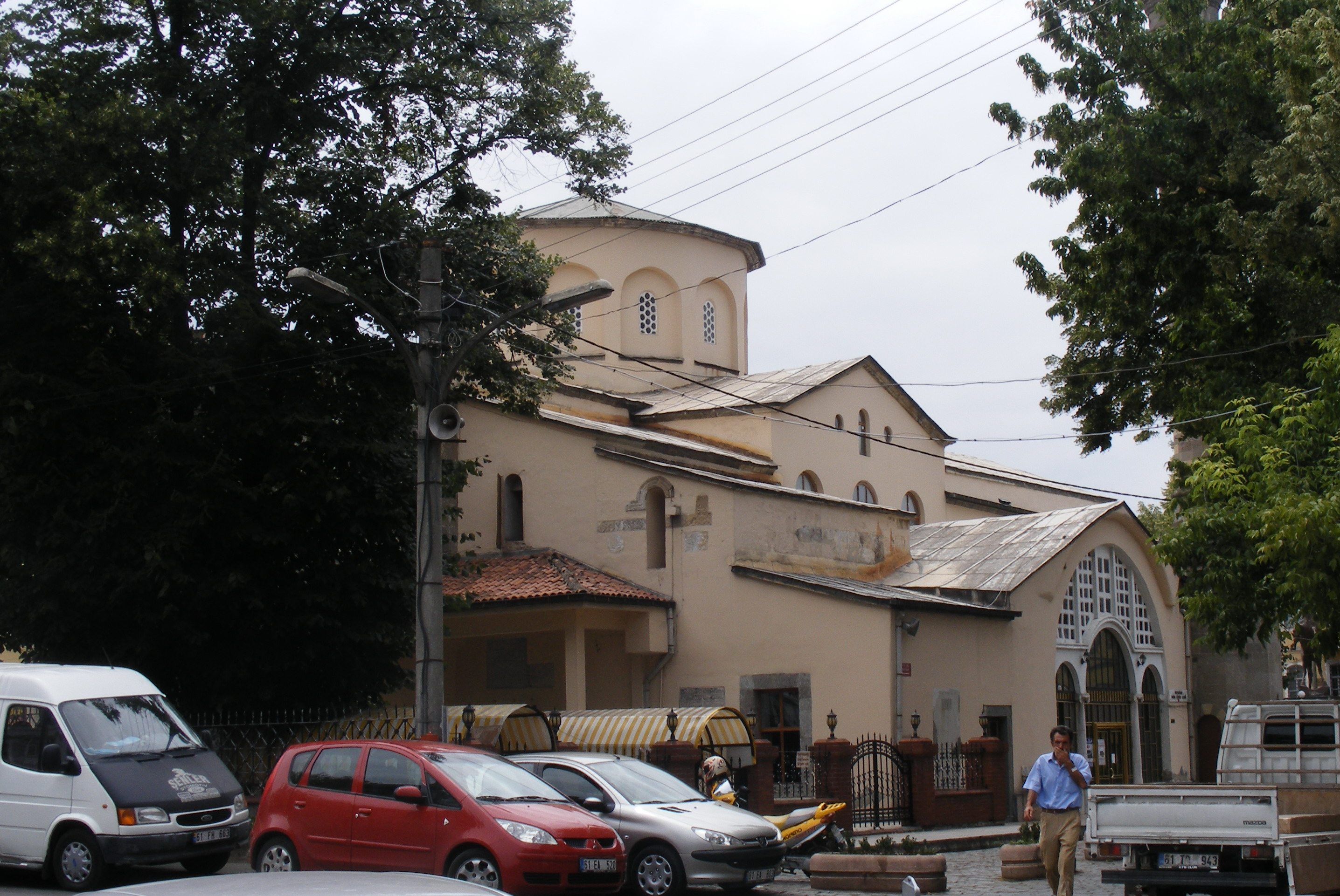 Former Panagia Khrysokephalos church, now - Fatih mosque in Trabzon